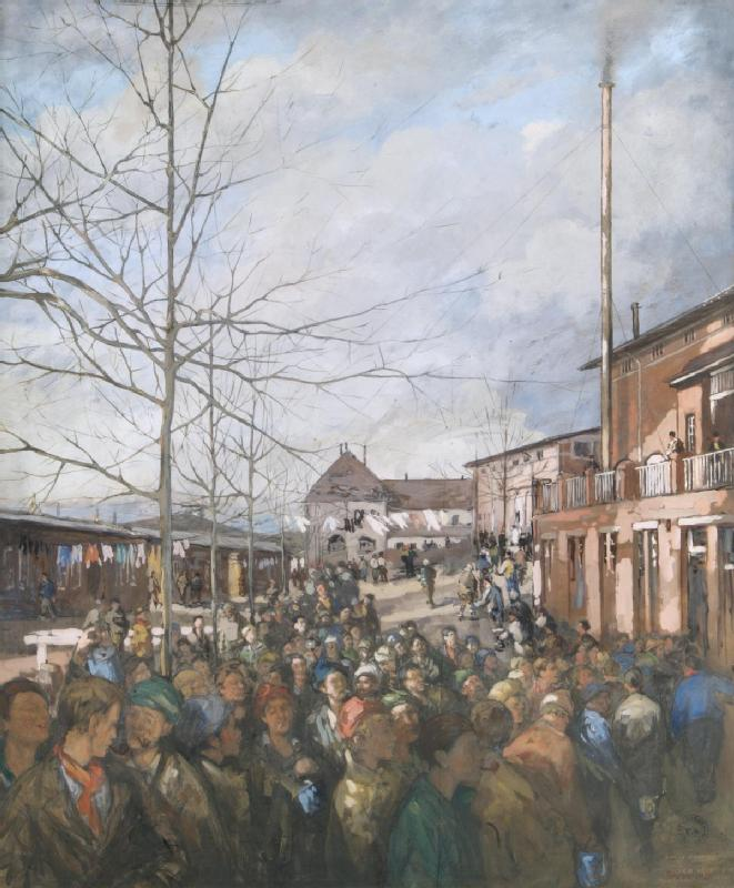 Ruhleben Prison Camp - Christmas Dinner image: A large queue of prisoners gathers in the space in front of a balconied building to the right; the queue running from the foreground to the background. There are two single storey prison huts to the left and a taller building in the background, with washing lines visible amongst the buildings.